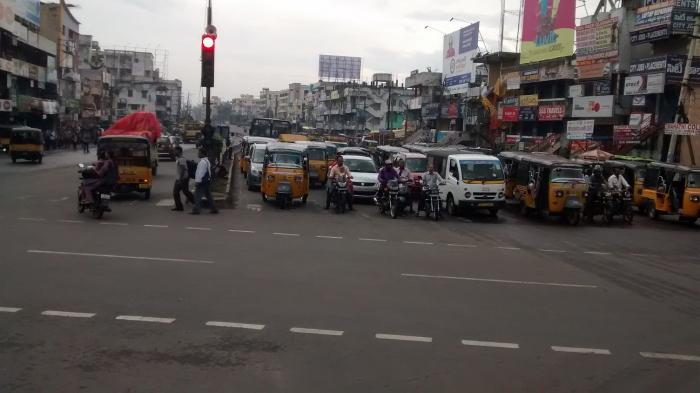 crowded N.A.D